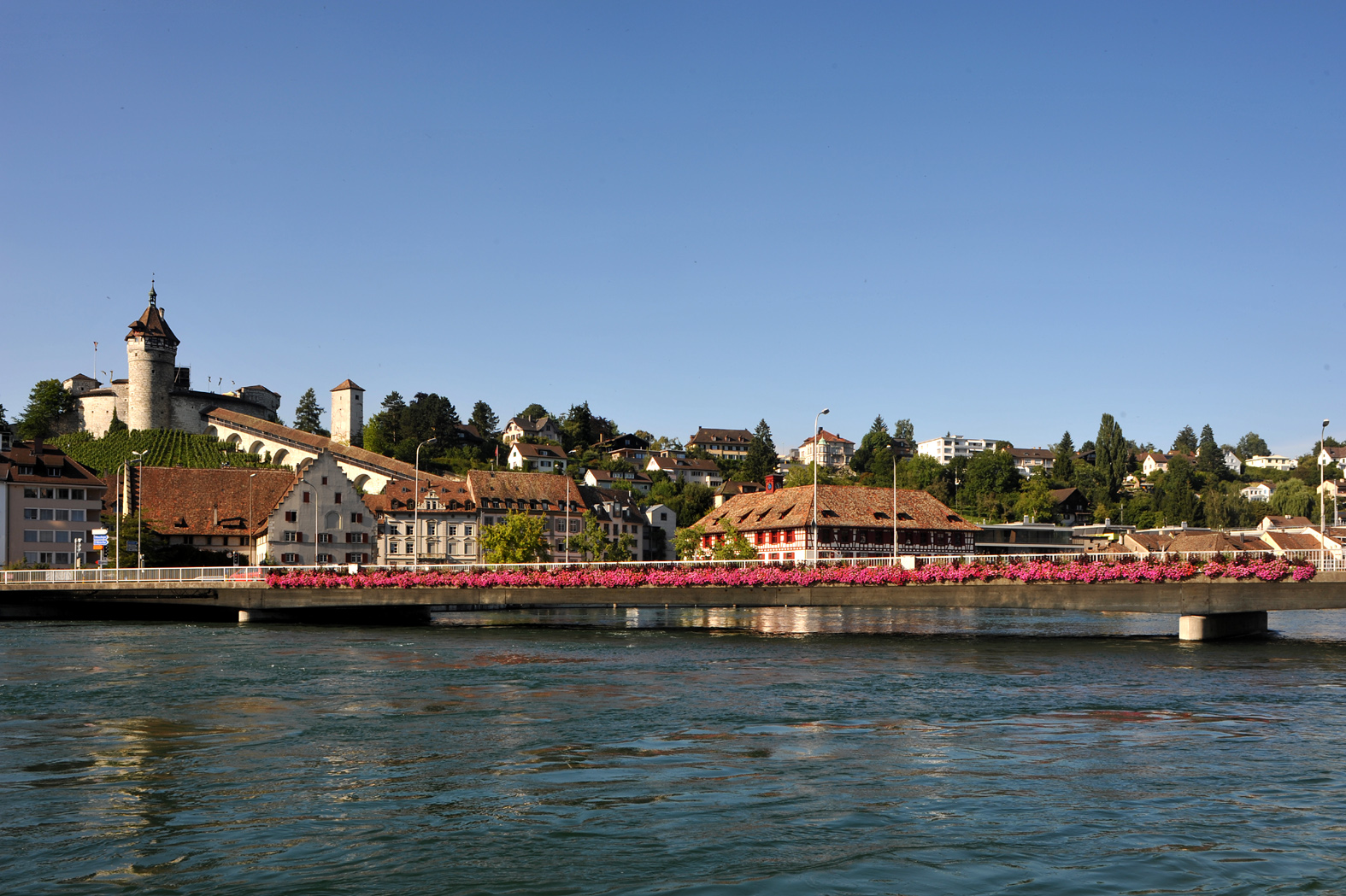 Road bridge between Schaffhausen and Feuerthalen; Schaffhausen and Zurich, Switzerland.